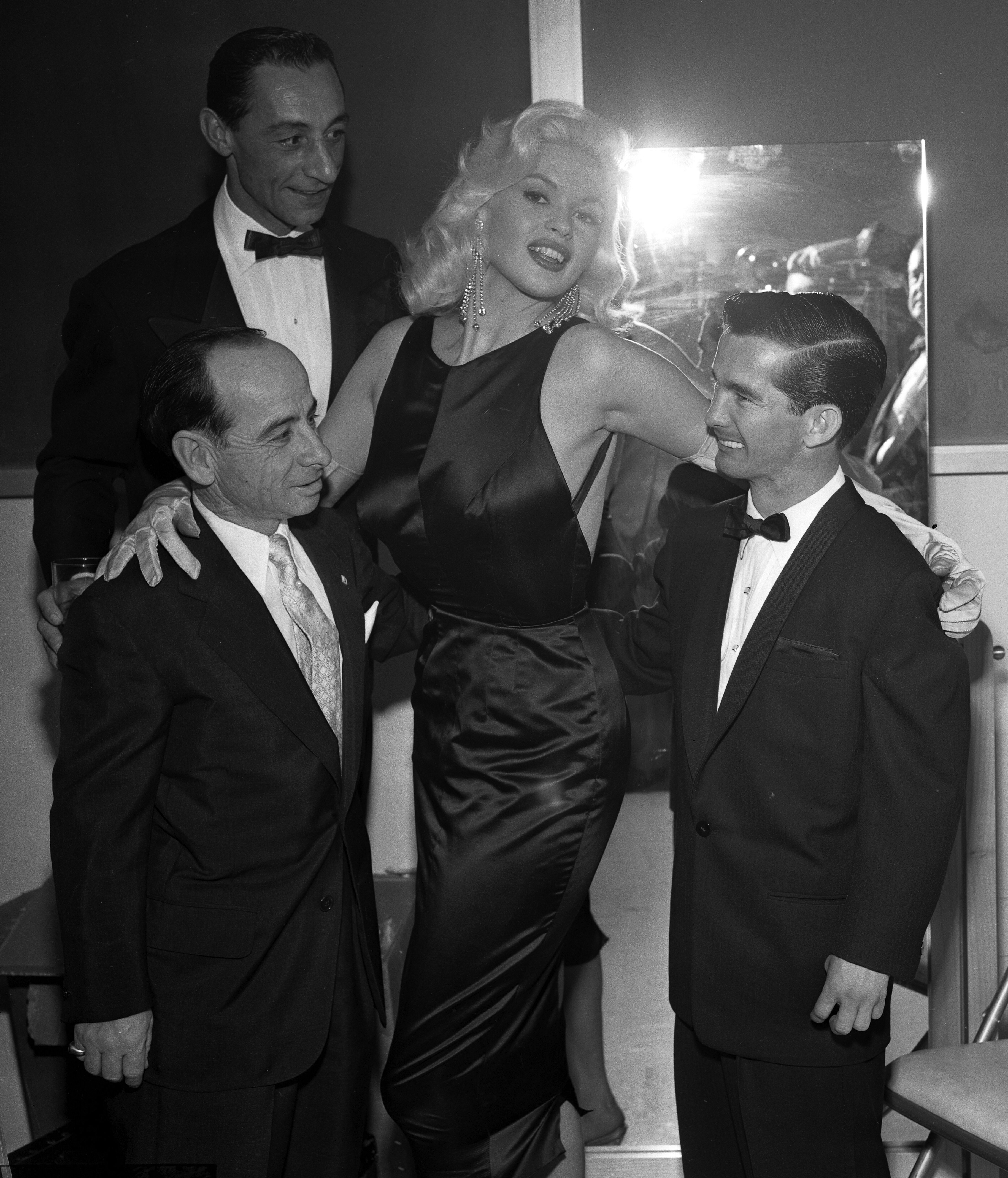 Jayne Mansfield with jockeys Johnny Longden, Eddie Arcaro and Willie Shoemaker at Jockeys' Ball in Los Angeles, Calif., 1957